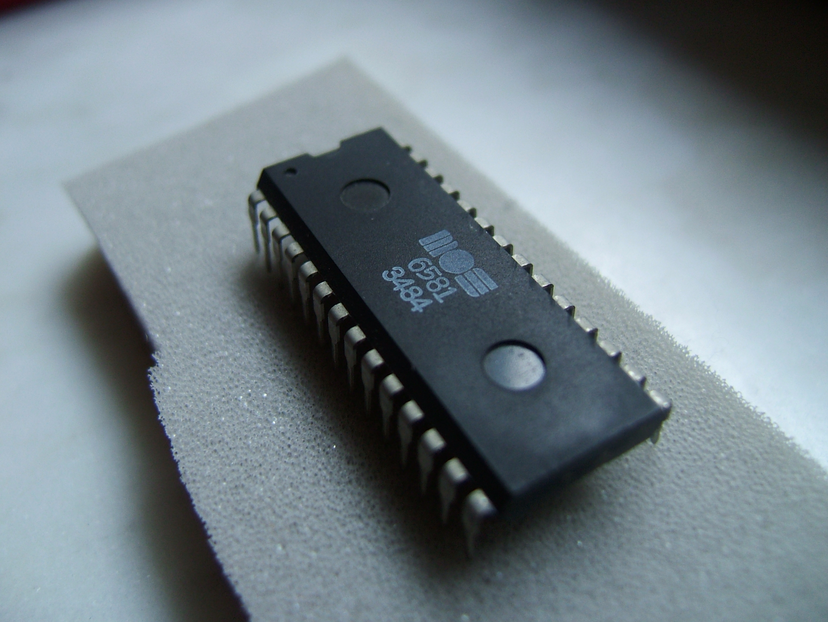 MOS Technology SID 6581